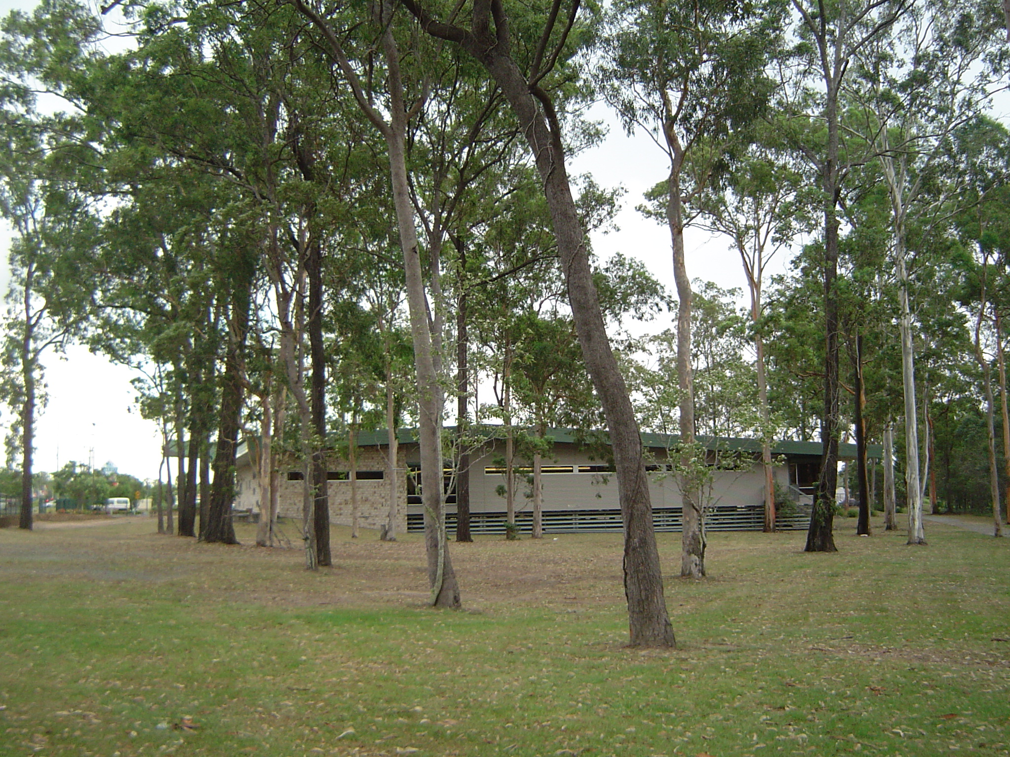 Photo of Marsden library at Kingston, Queensland, Australia.